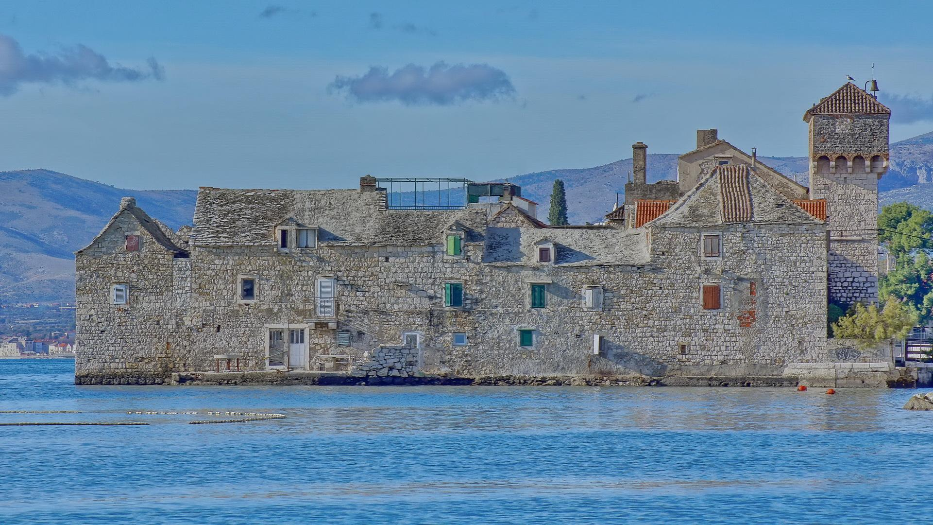 Kaštel Gomilica (Kaštilac), 2011-12-13